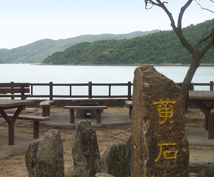 Wong Shek, Tai Po District, Hong Kong, China